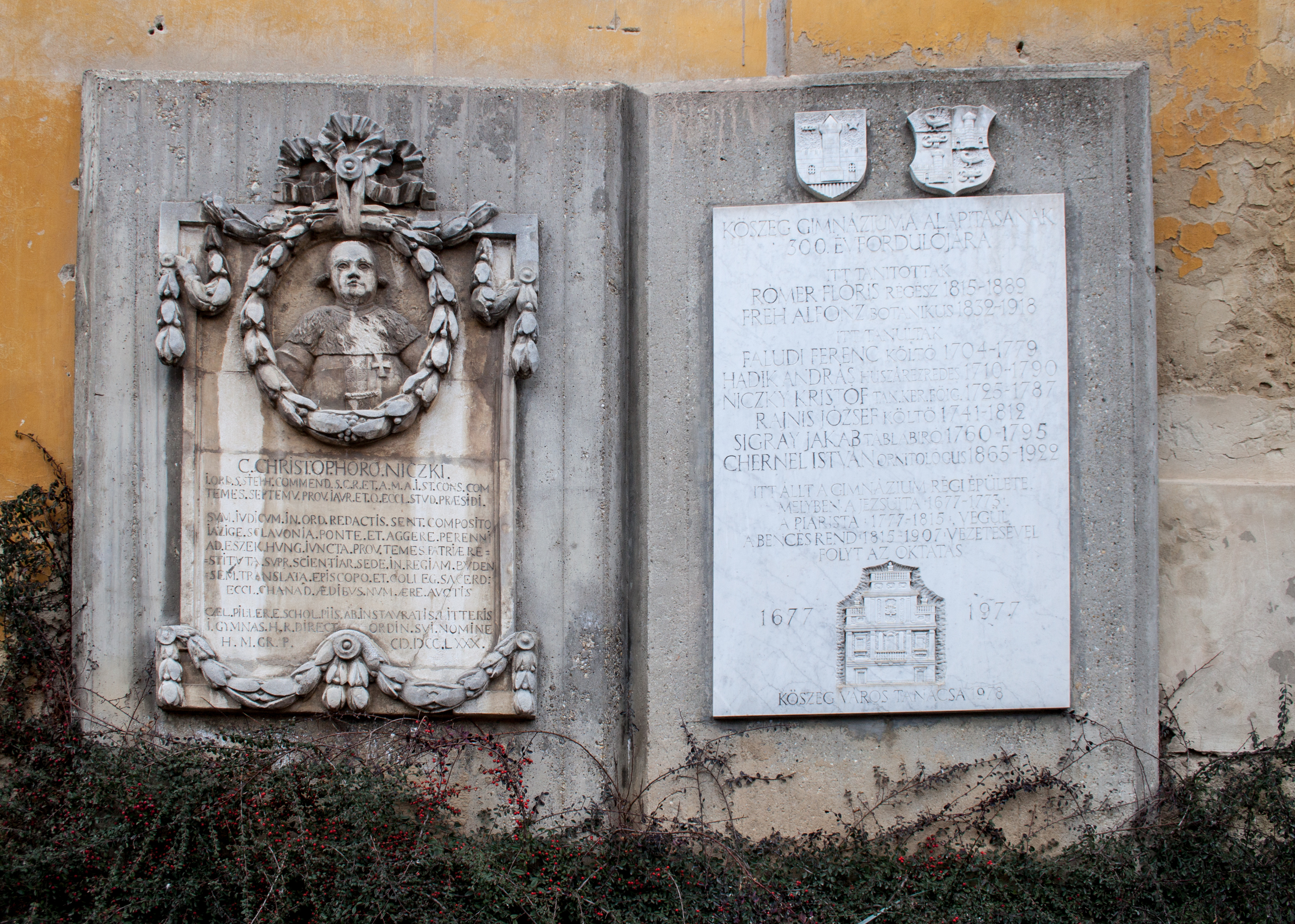 Plaque of the Benedictine grammar school, Kőszeg